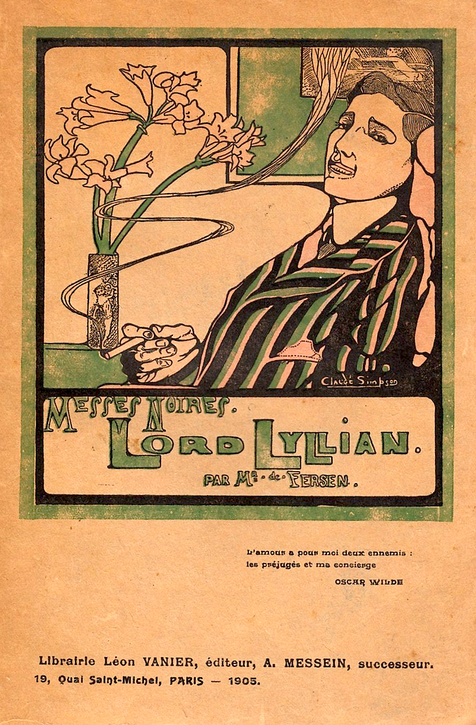 Cover of the book by Fersen: Messes noires. Lord Lyllian, Paris, Albert Messein, 1905.